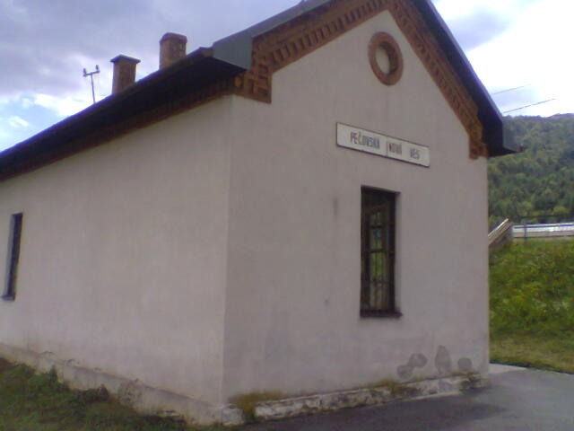 Train station in Pecovska Nova Ves